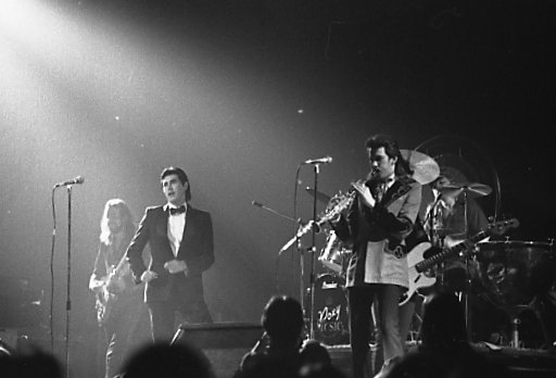 Massey Hall, Toronto,1974